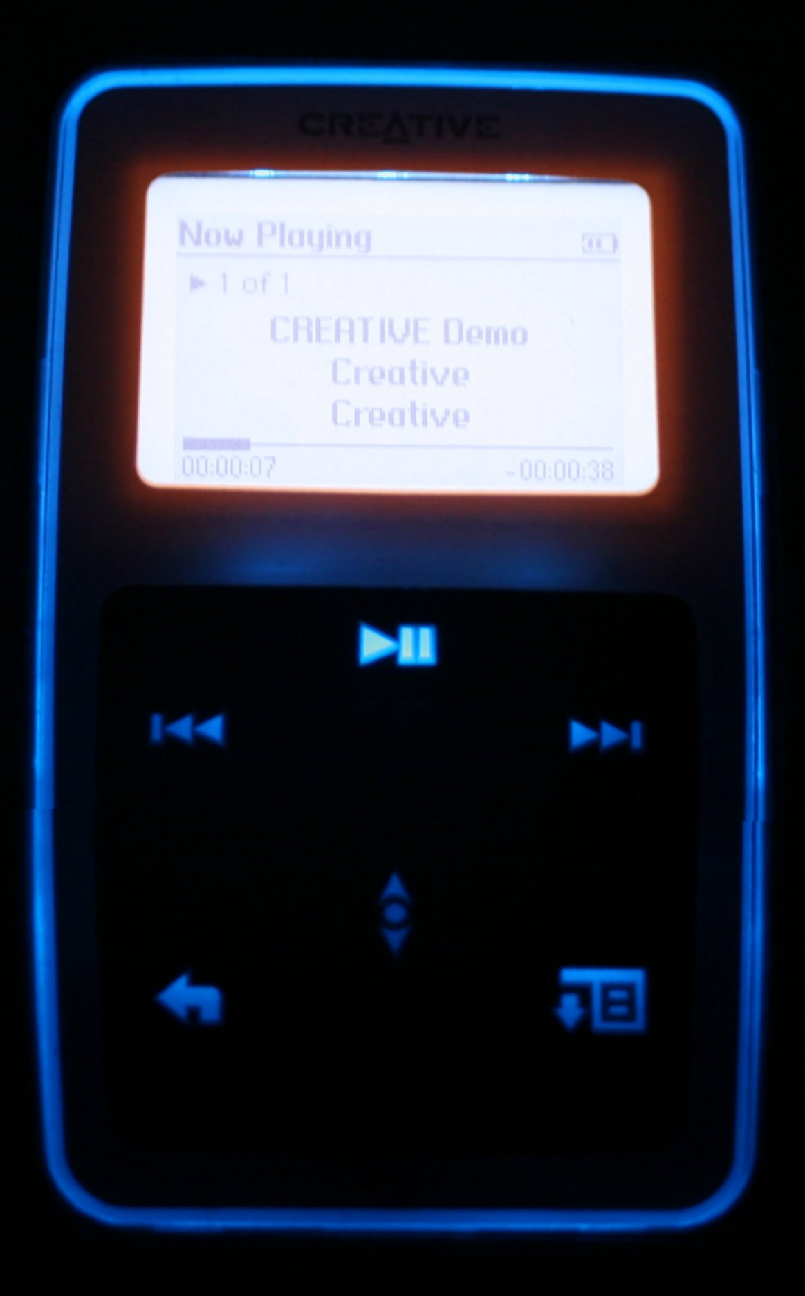 Original Photograph by user:Electricmoose